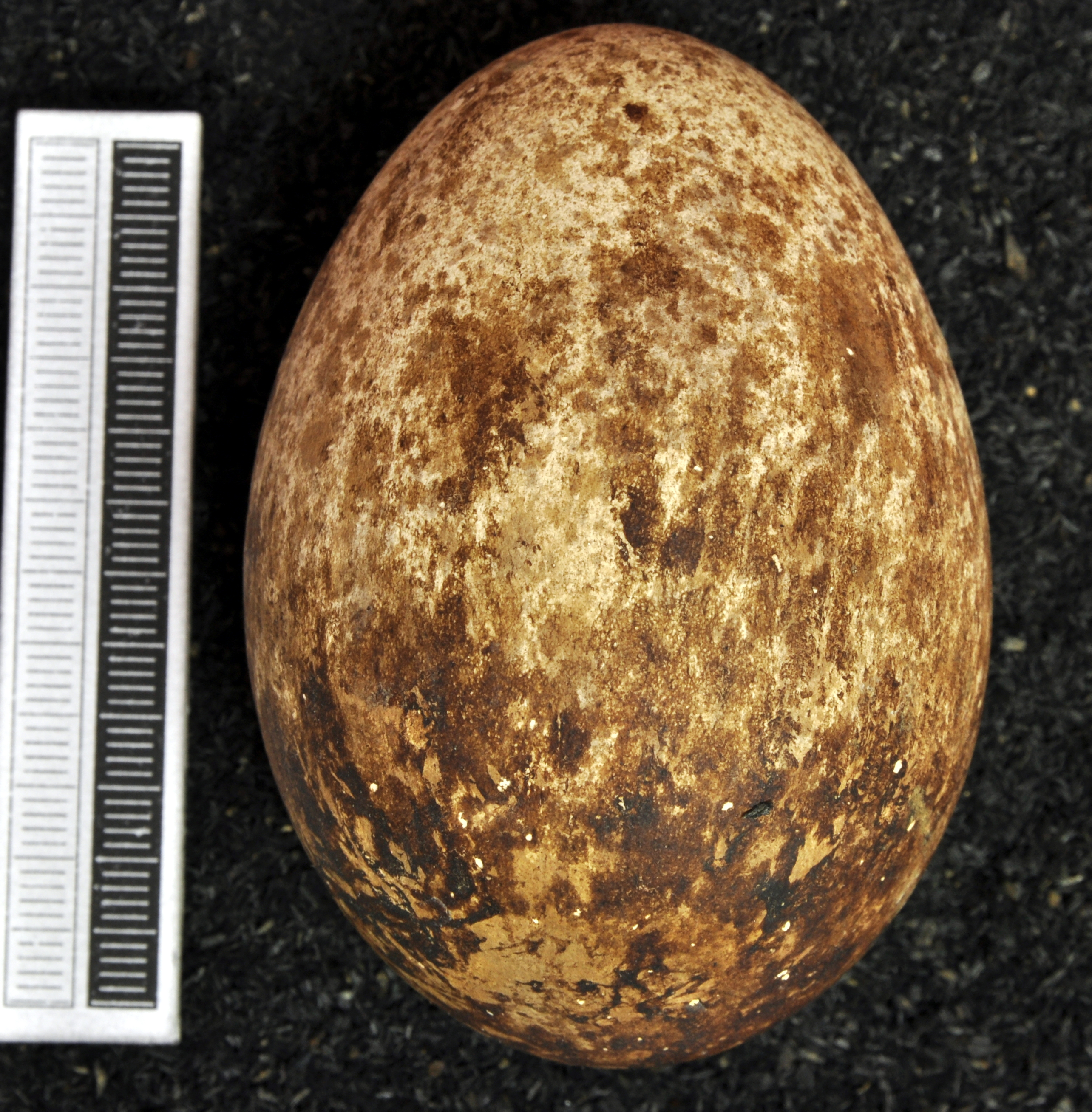 Egyptian vulture Neophron percnopterus , egg, Coll. Museum Wiesbaden